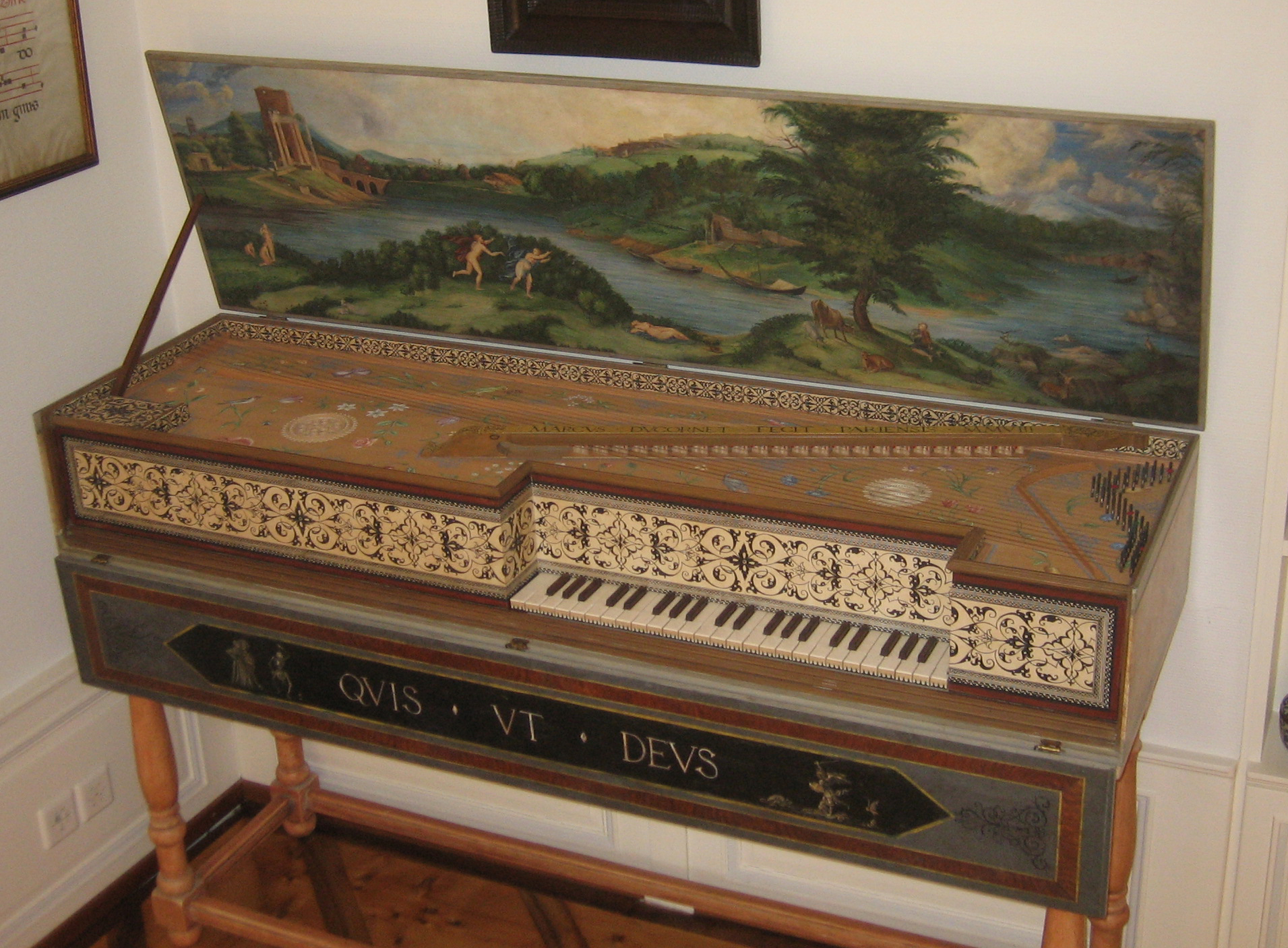 A Flemish muselaar of the Ruckers school, signed Marc Ducornet, Paris 2008[1]. C/E-c’’’, 45 notes with short octave, traditional Flemish keyboard with bone slipped naturals and keyfronts with wood and parchment decoration, oak accidentals. Two decorative wood and parchment roses on the soundboard. Length 171 cm, depth 49.5 cm, height 26 cm. Case, lid and soundboard painted by Alison Woolley of Florence [2], the case in faux-marbre, the inside of the lid with the Orpheus legend, partly inspired by the painting by Niccolò dell'Abbate File:Abbate - Orpheus and Eurydice.jpg. On a table based on the harpsichord stand in the 1655 painting ‘Das Konzert’ by Gerard ter Borch in the Gemäldegalerie, Berlin.